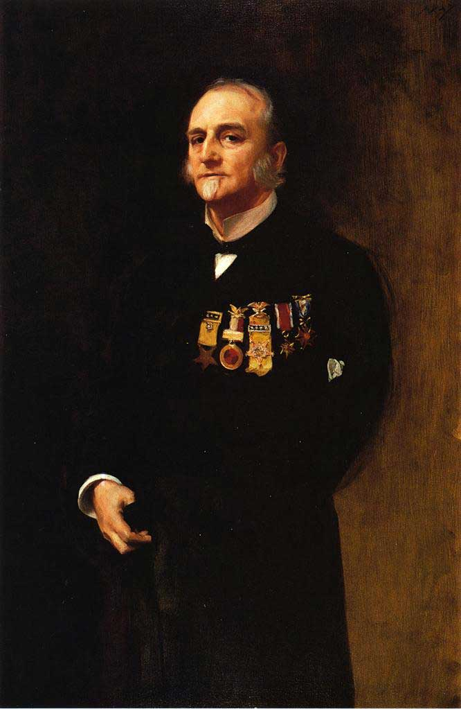 General Lucius Fairchild John Singer Sargent -- American painter 1887 State Historical Society of Wisconsin, Madison, Wisconsin Oil on canvas. 127.6 x 82.6 cm (50 1/4 x 32 1/2 in.) Inscription: (Upper left:) John S. Sargent (Upper right:) 1887 signed Jpg: Wisconsin Magazine of History / the-athenaeum